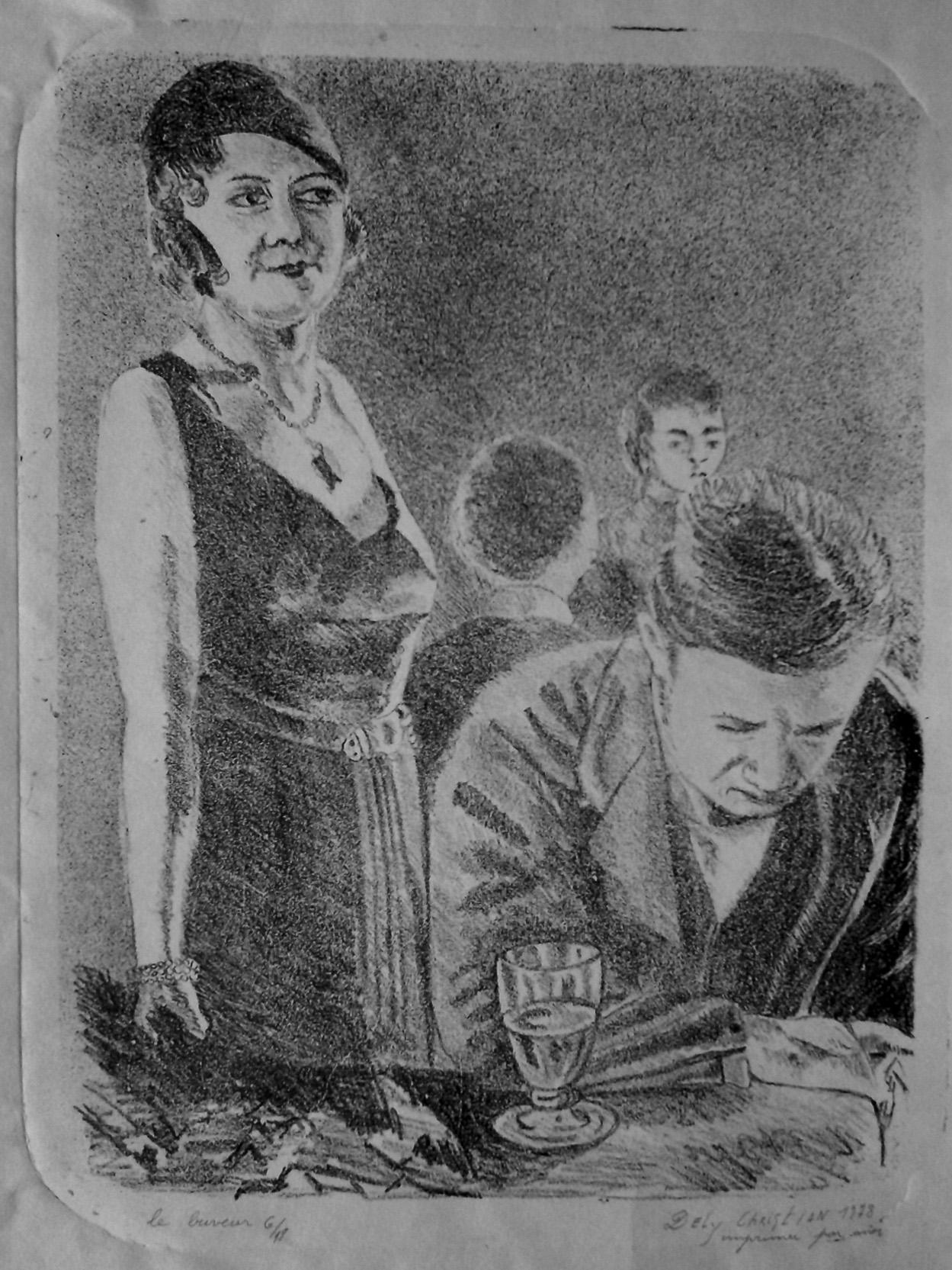 Christian Dely, Le buveur(litho)